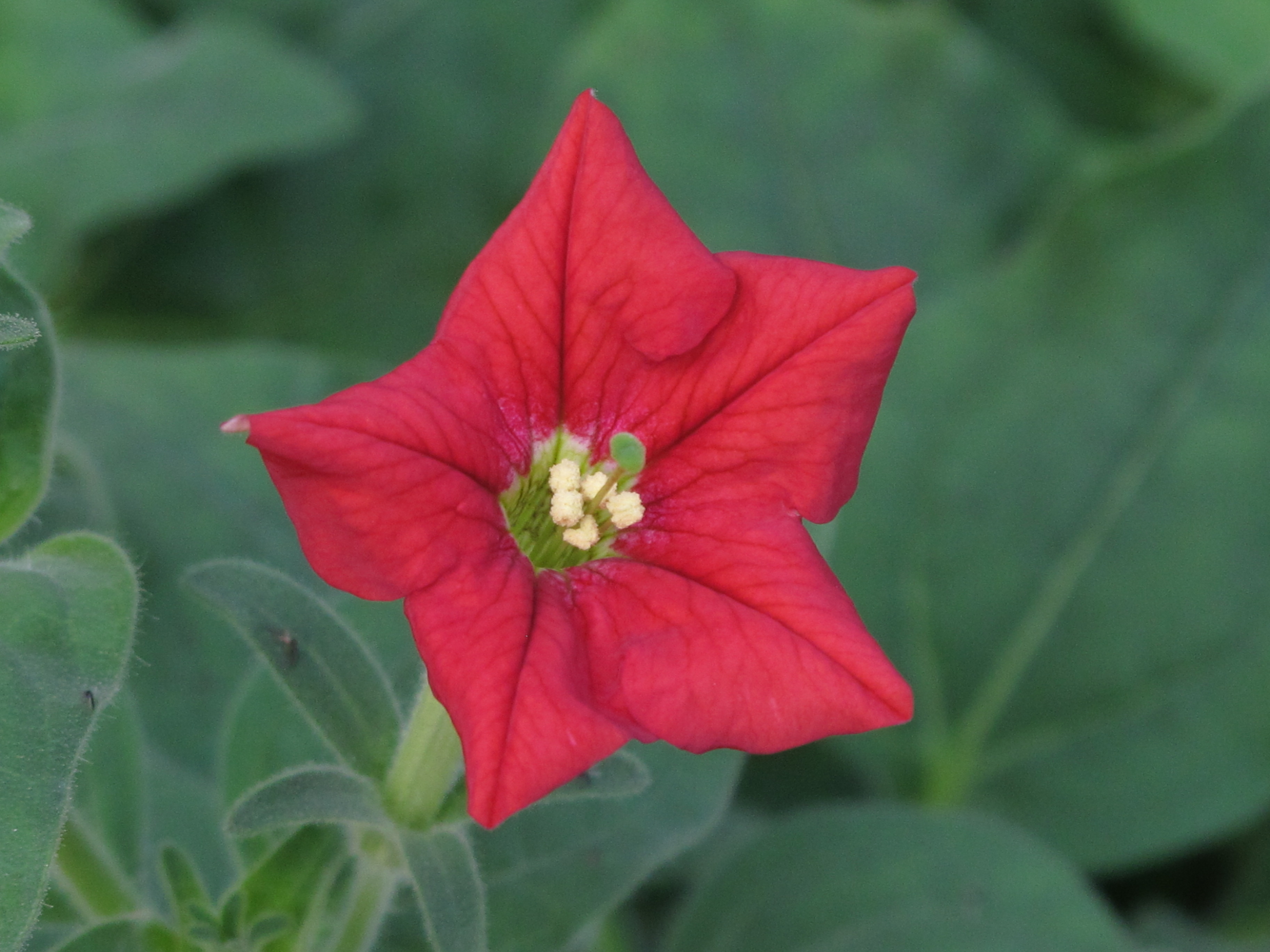 cultivated from seeds sent to me by Joseph at Biological Sciences greenhouse, Florida International University, Miami, Florida, USA.